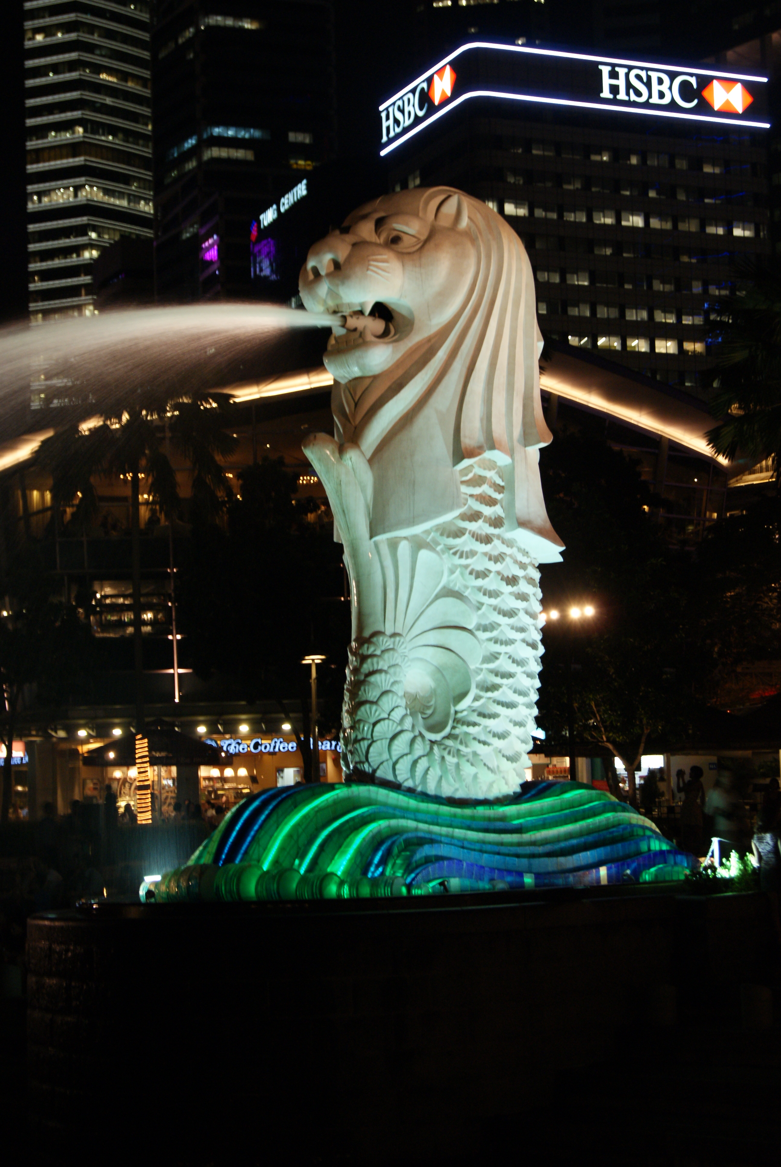 The Merlion statue at Merlion Park, Singapore.